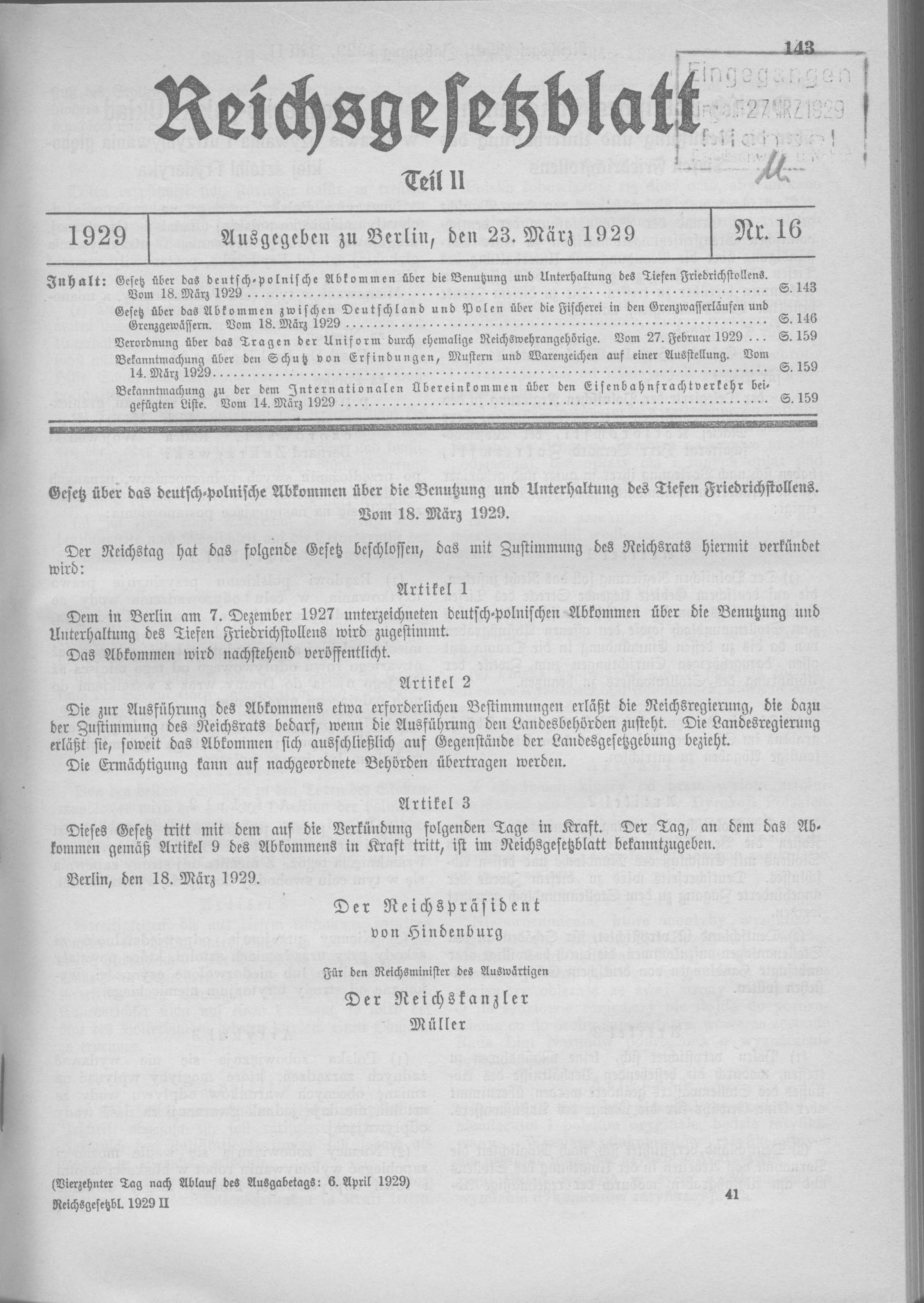 Scan from the Imperial Law Gazette of Germany, 1929, part 2